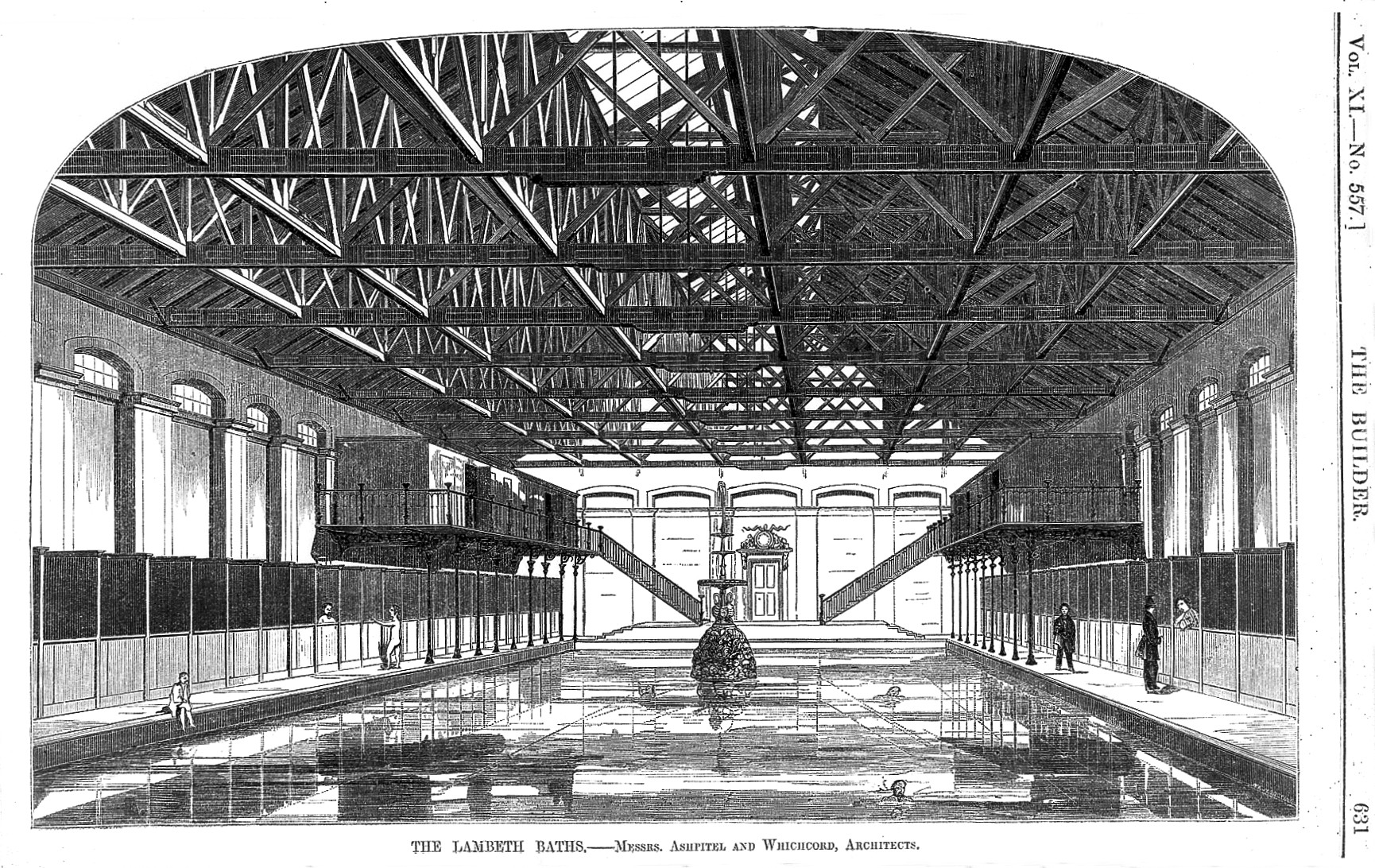 Engraving; The Lambeth baths. Wellcome Images Keywords: birmingham.; Baths; England